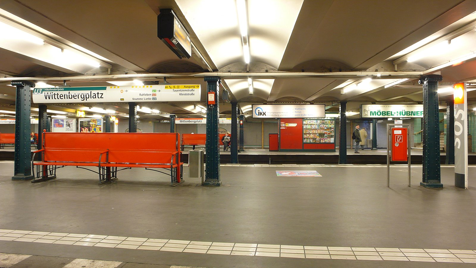 Wittenbergplatz